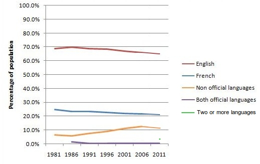 Language used most often at home 1981-1986, source: Statistics Canada